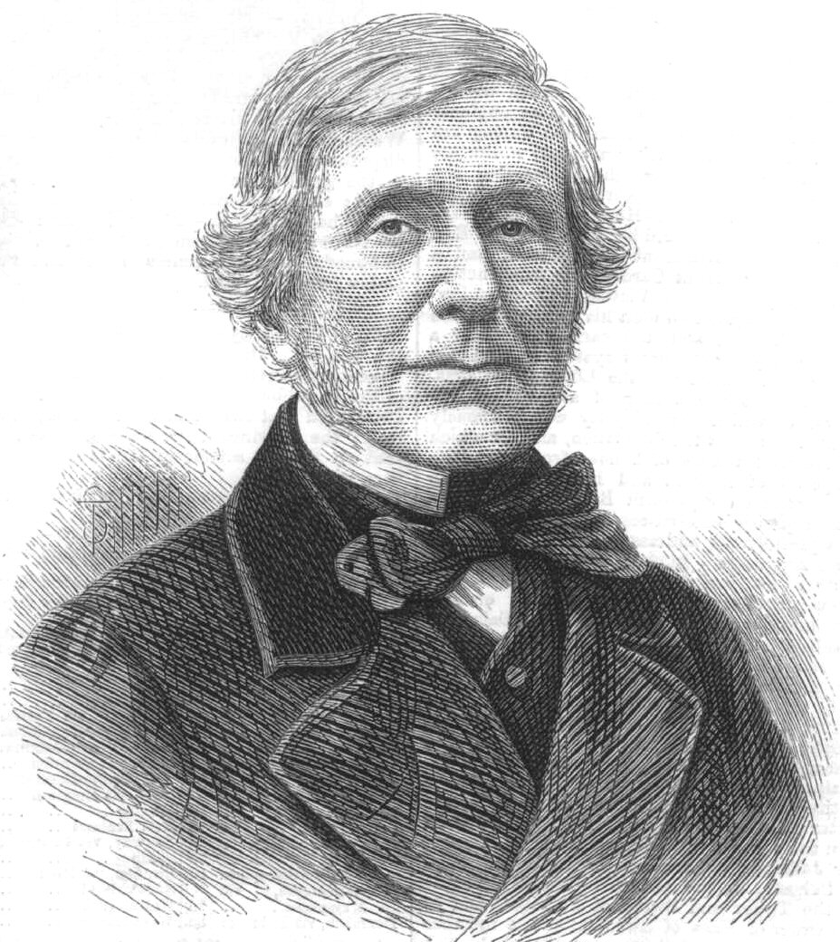 From here